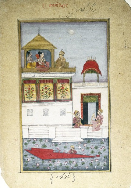 Page from a Dispersed Ragamala Series